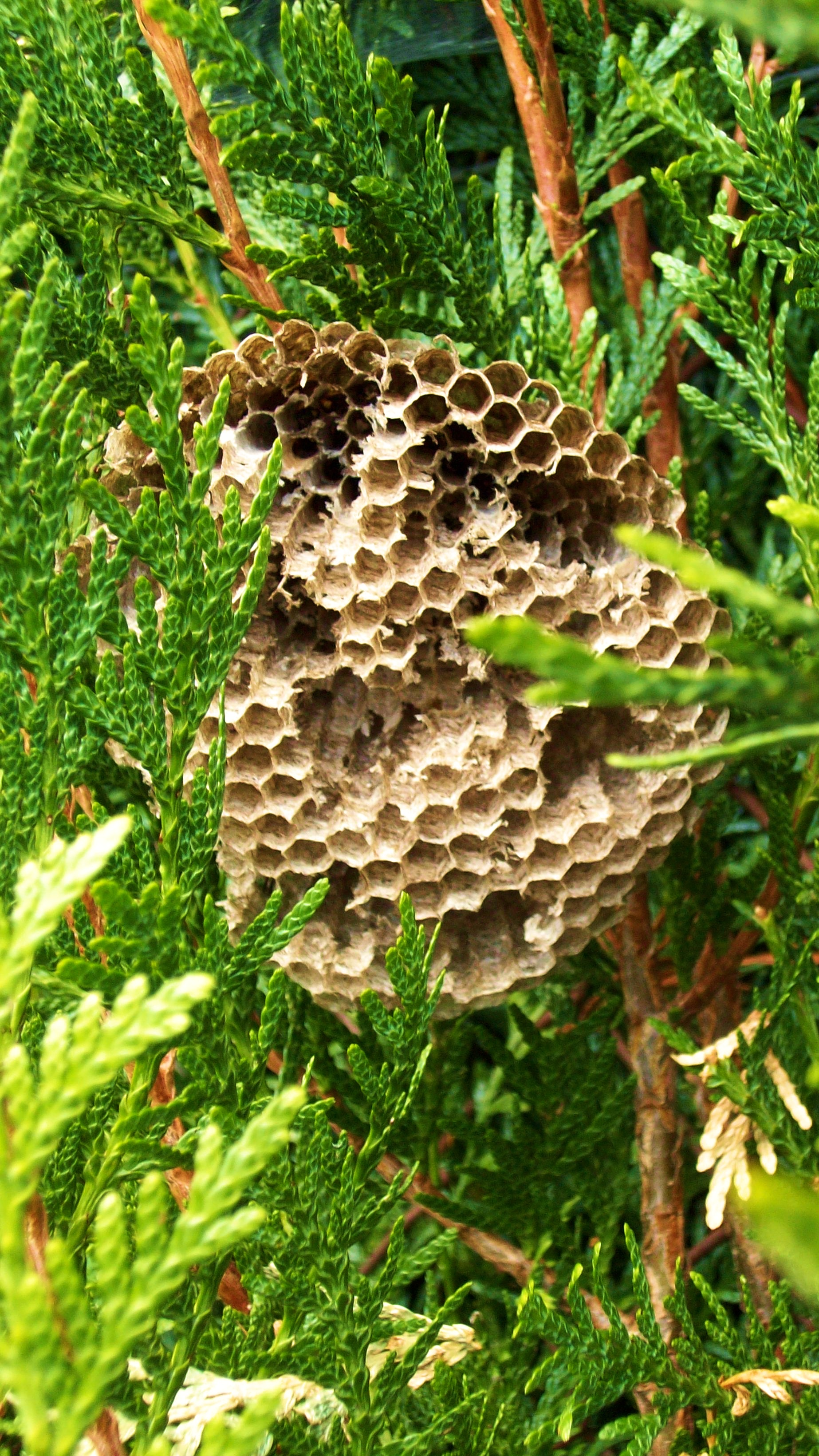 A abandoned wasp nest